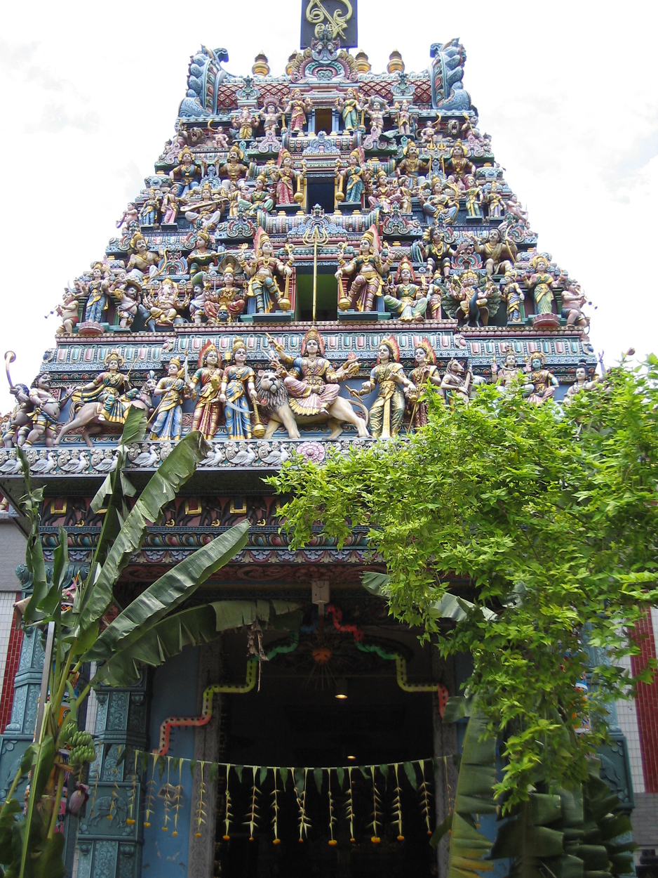 Door to the Sri Mariamman Temple in Singapore